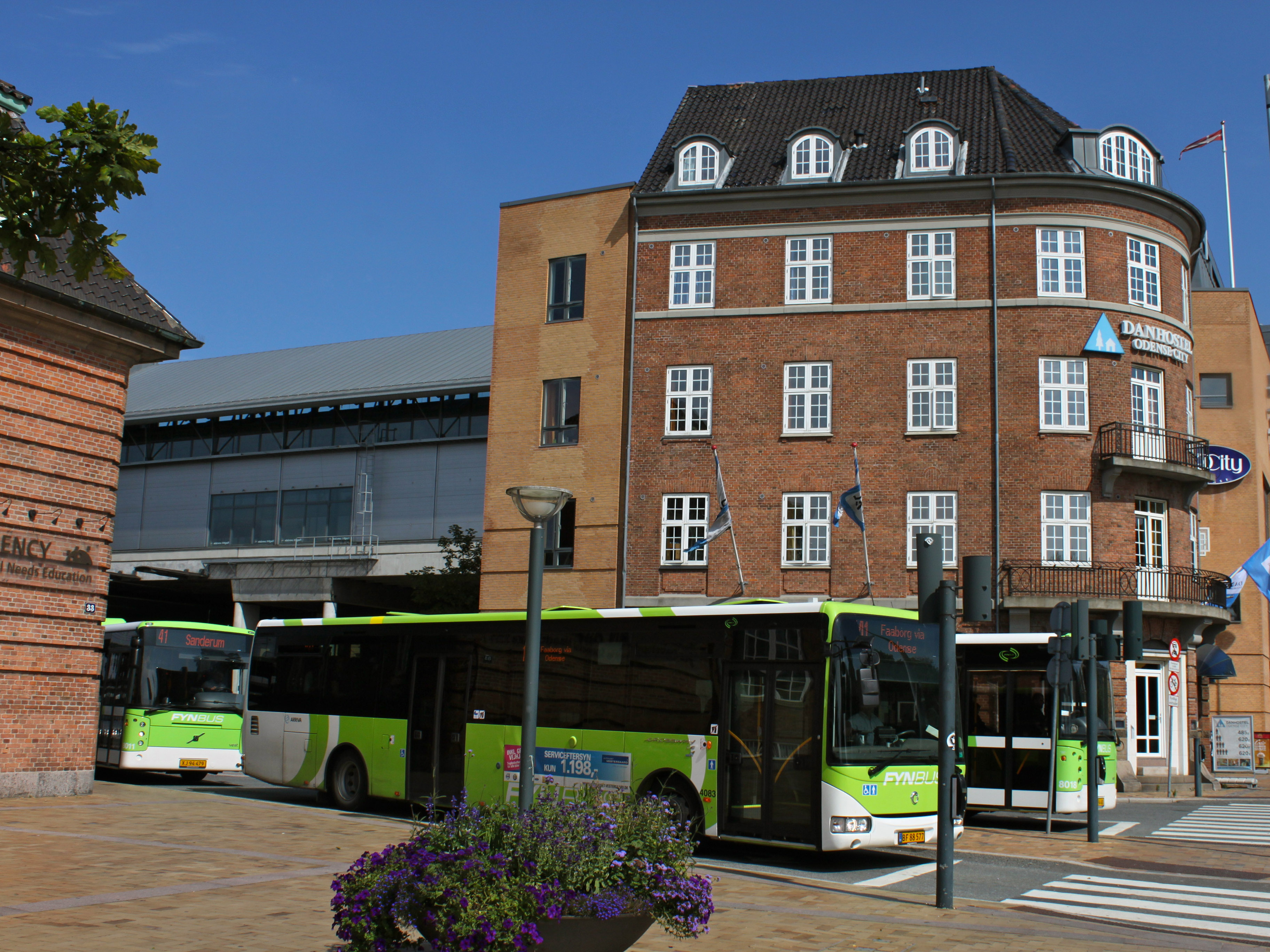 The FynBus terminal at Odense railway station, Denmark